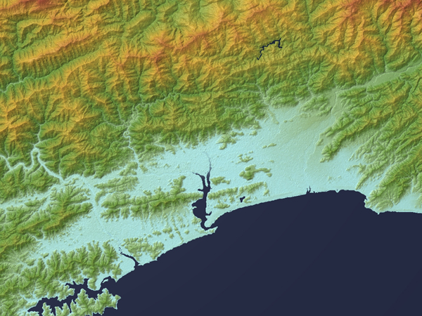 Kochi Plain in Kochi Prefecture, Shikoku, Japan.